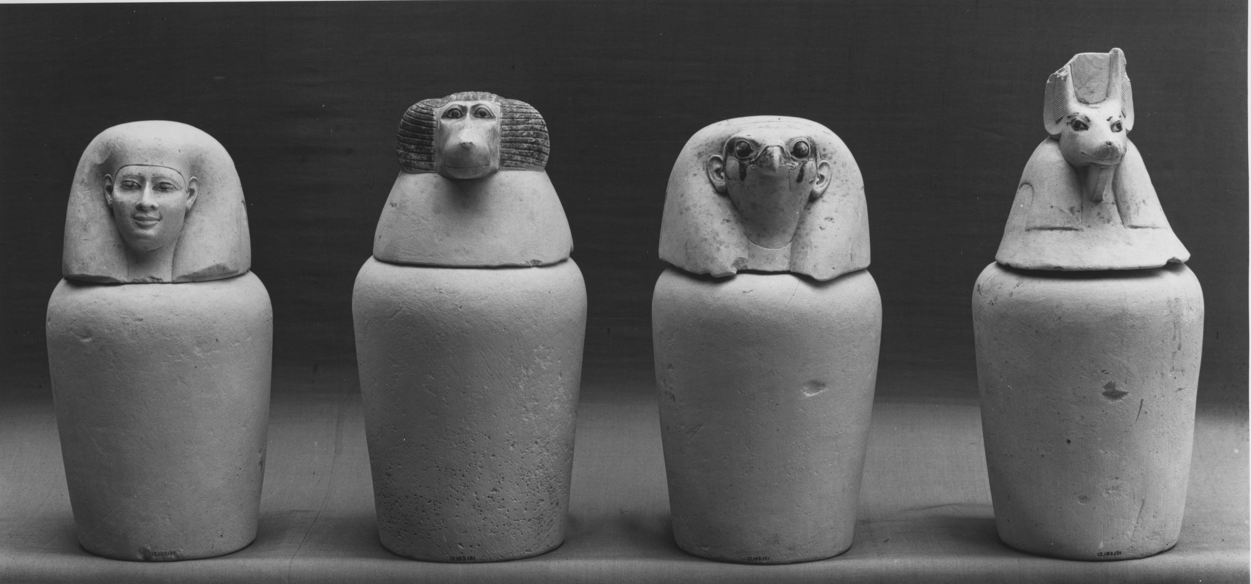 Canopic jar, Imsety